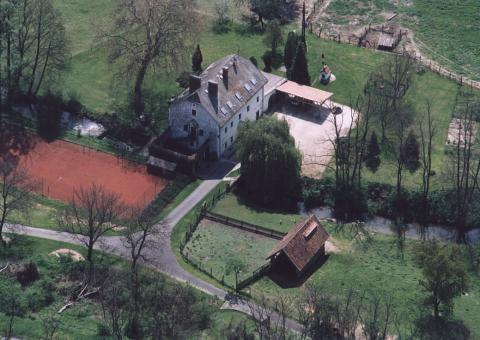 Kapolcs, Hungary, aerialphotgraphy